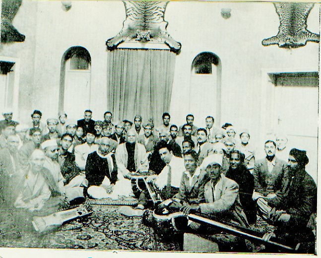 Ustad Qasim at the British embassy, circa 1917